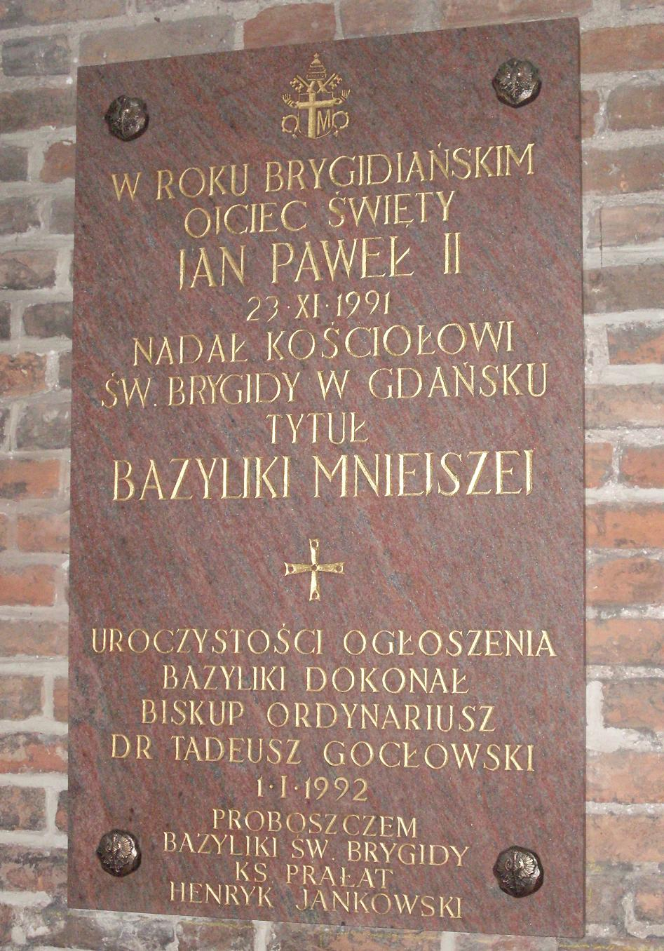 Plaque commemoratory title of basilica minor at Church of St. Bridget in Gdańsk.